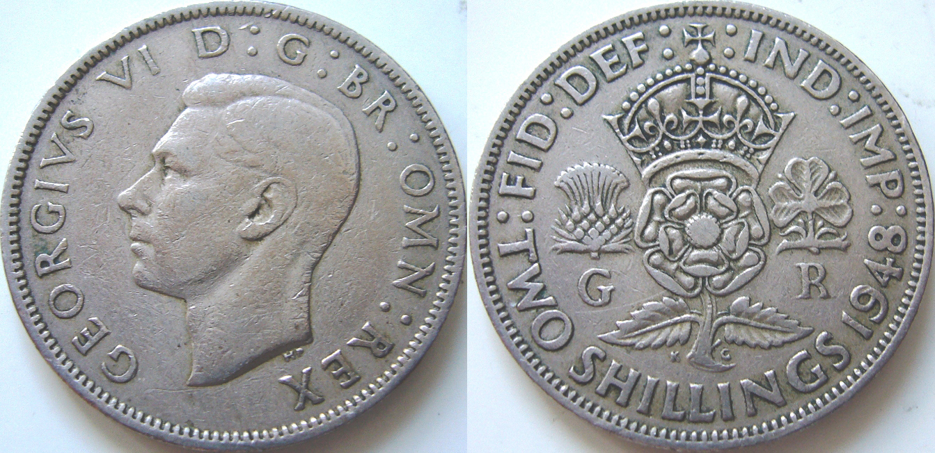 A British two-shilling coin dated 1948.